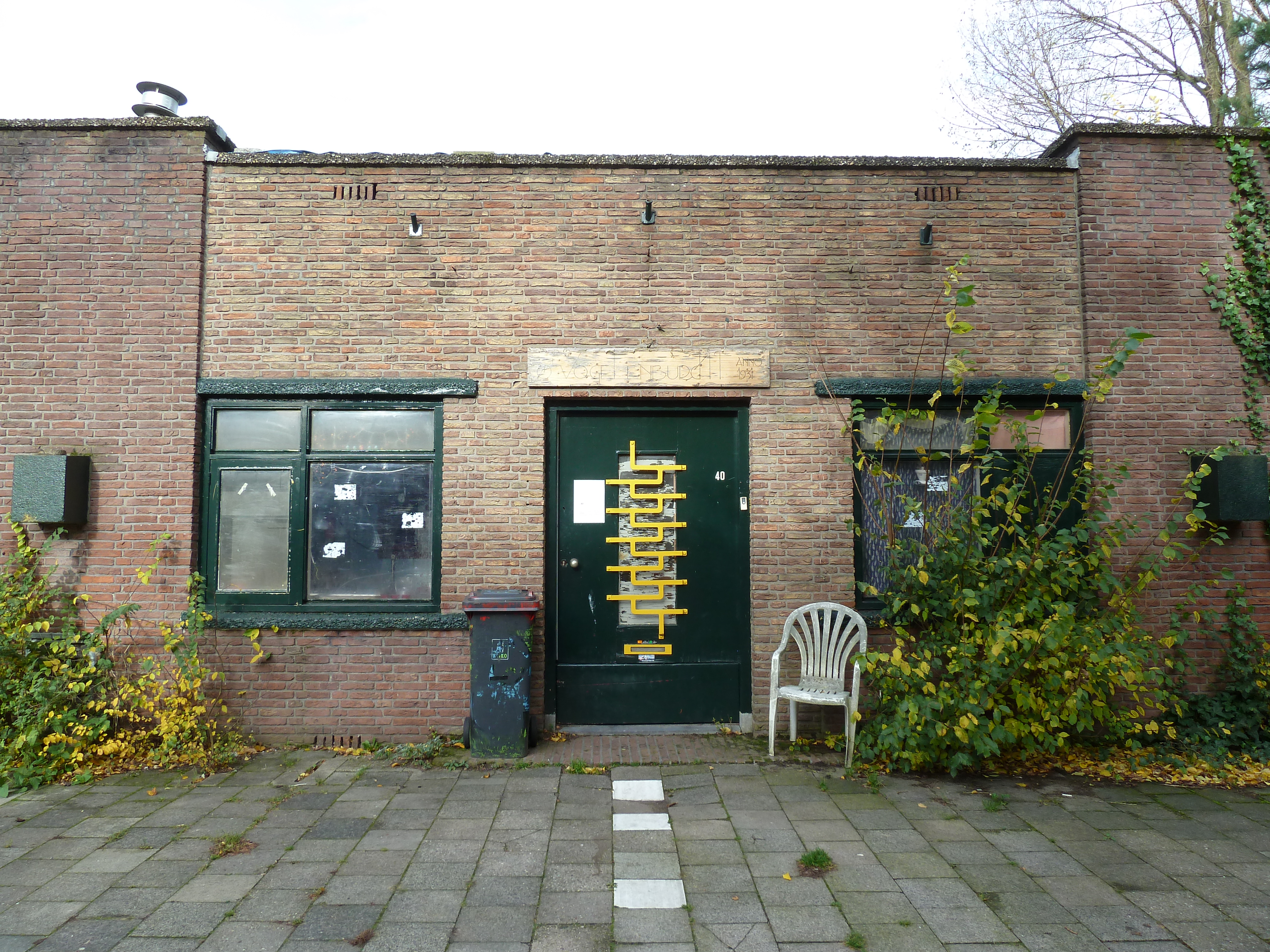 Squat Vogelenburcht, Utrecht, NL.